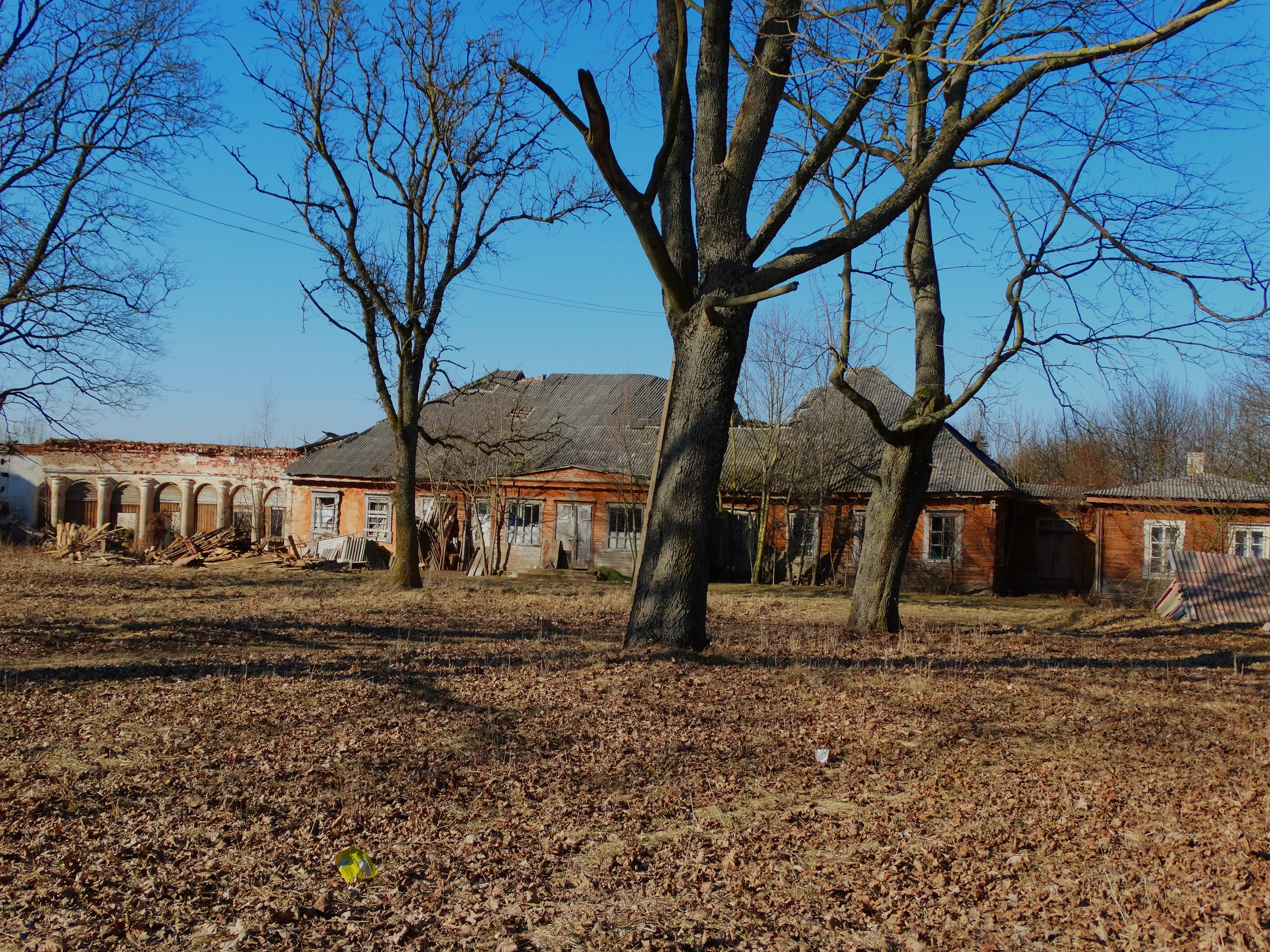 Manor, Šiaulėnai, Radviliškis District, Lithuania